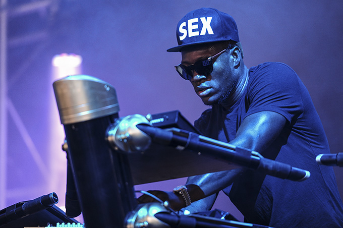 Benga @ Wellington Square Parklife Festival 2012 1 October 2012